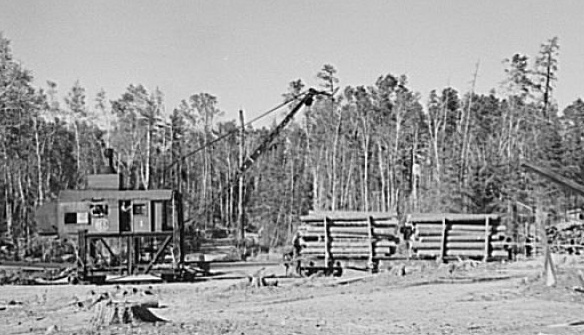 Loading device moving railroad cars full of timber at camp near Effie, Minnesota